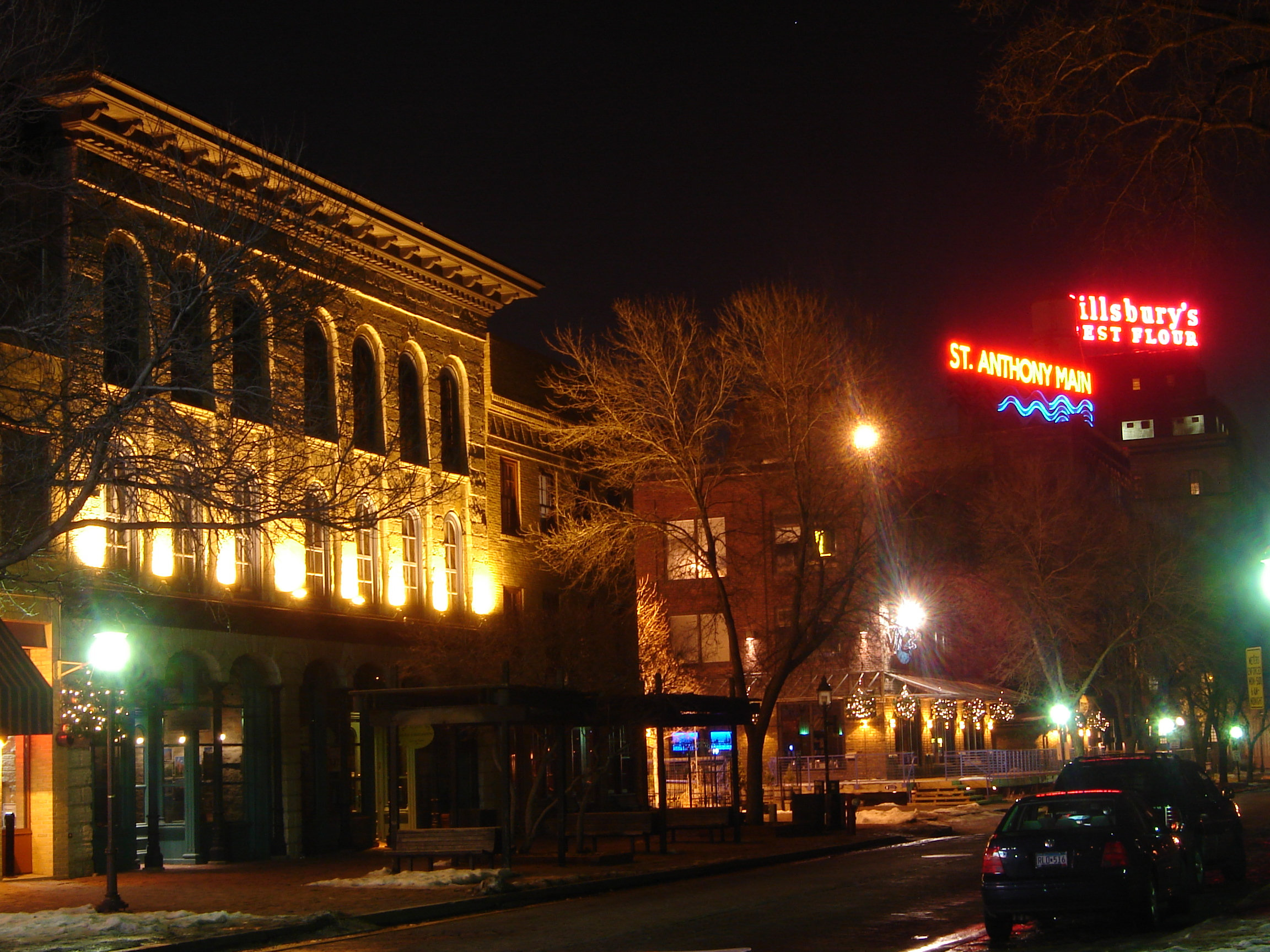 South down St. Anthony Main at night.